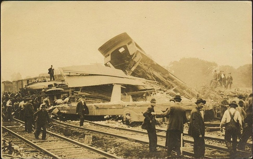 Postcard picture of train wreck in Fairfield, Connecticut, along the New Haven Line, June 6, 1911, four trains were in the wreck, according to the eBay store Web page: "On back in old manuscript writing: 'Four freight trains in wreck on NY NH & H RR at Fairfield, Conn., June 6, 1911.' Postally unused "